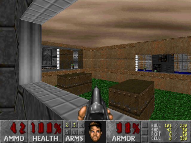 FreeDoom screenshot, level 2 (version 0.6.4)